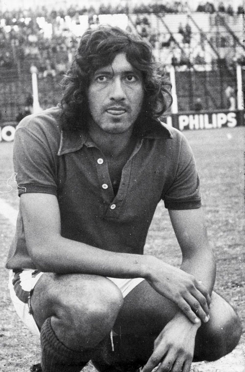 Tomás Carlovich at Central Córdoba.